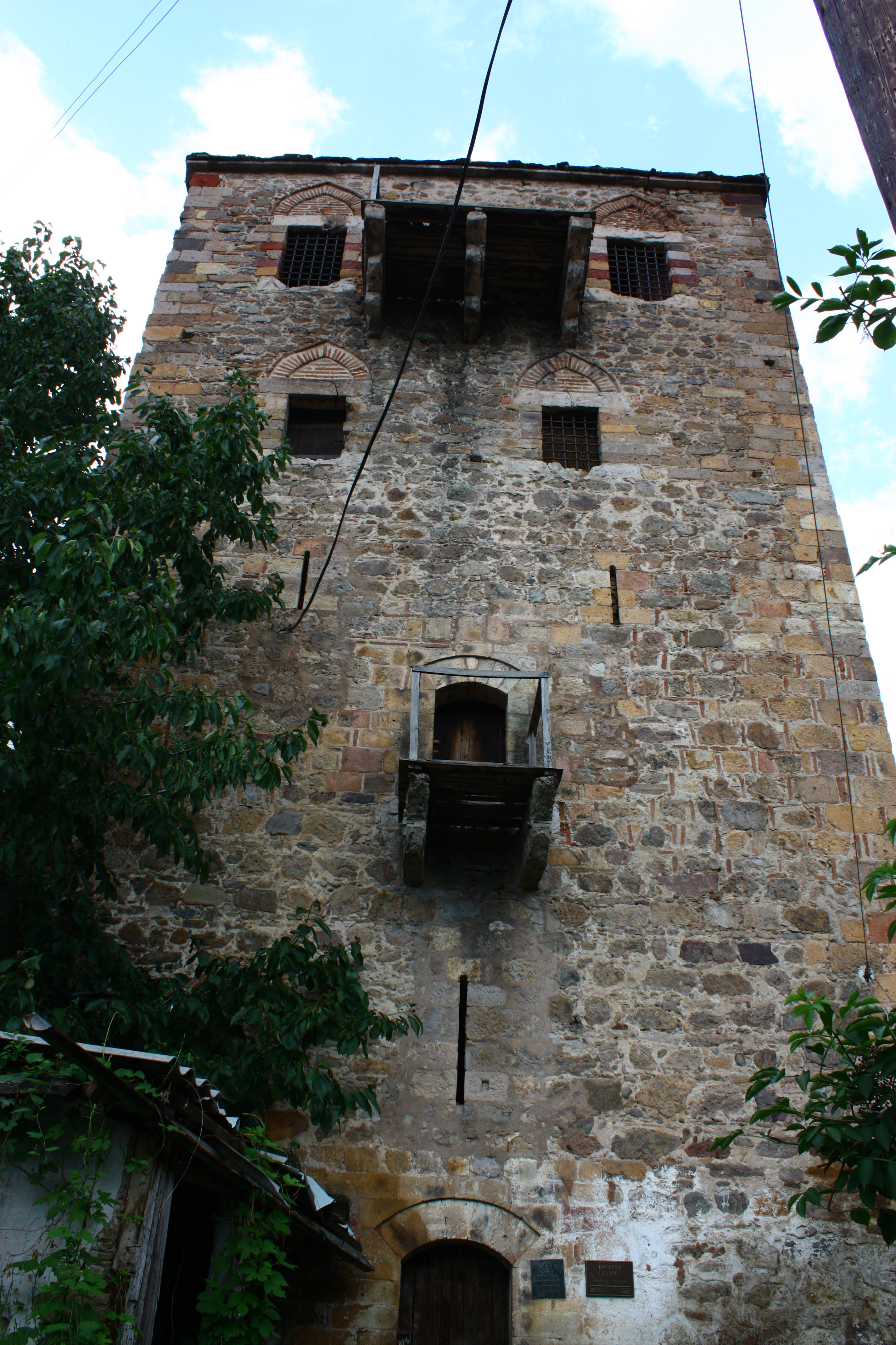 Kratovo, Macedonia